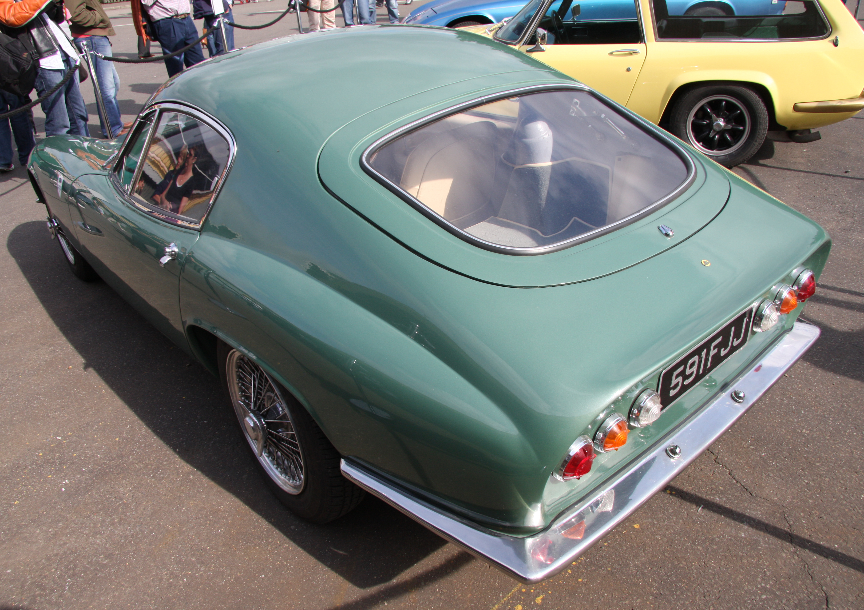 Built by Wing Commander Tony Bates in 1964/5 Lotus 60th Celebration